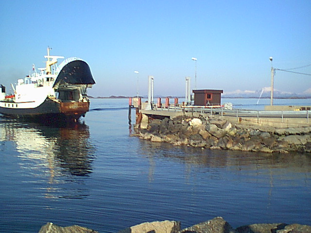 MF «Midøy» arriving at Orten